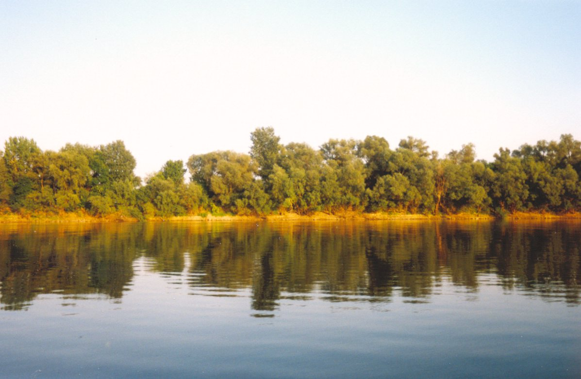 Tisza river in Szeged, Hungary